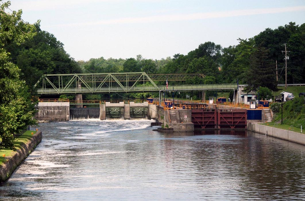 A photo of Erie Canal Lock #27 in Lyons, New York.